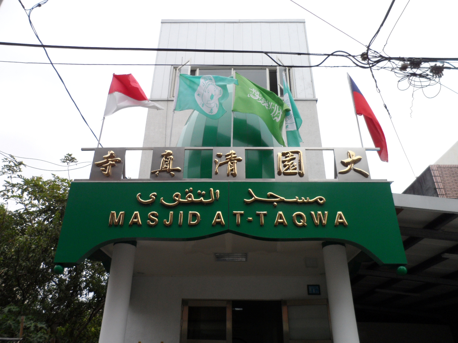 At-Taqwa Mosque, Dayuan District, Taoyuan City, Taiwan中文（台灣）: 中華民國桃園市大園區大園清真寺Bahasa Indonesia: Masjid At-Taqwa, Daerah Dayuan, Kota Taoyuan, Taiwan